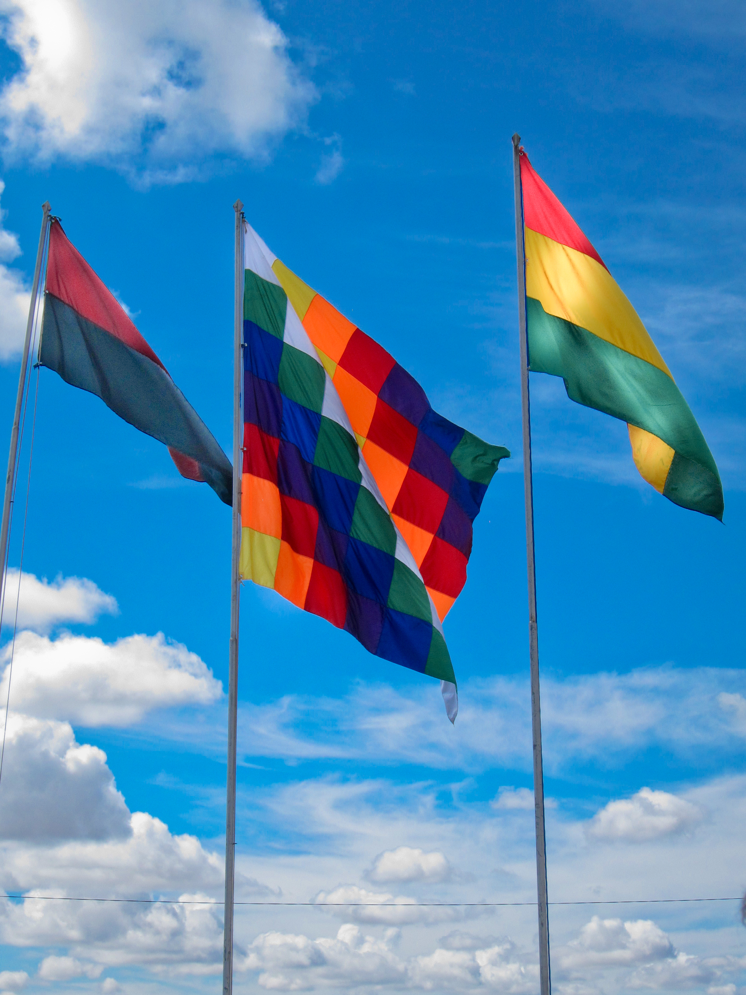 Banderas de Bolivia. Tiwanacu, La Paz.